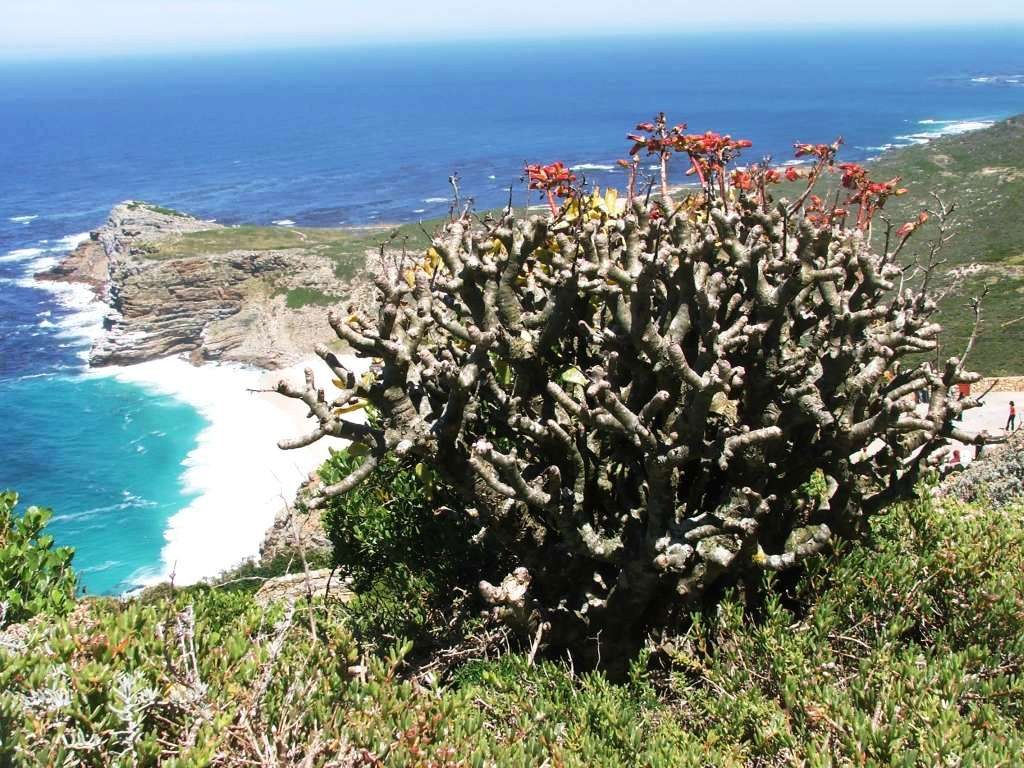 Tylecodon paniculatus on the Cape Peninsula near Cape Point. SA